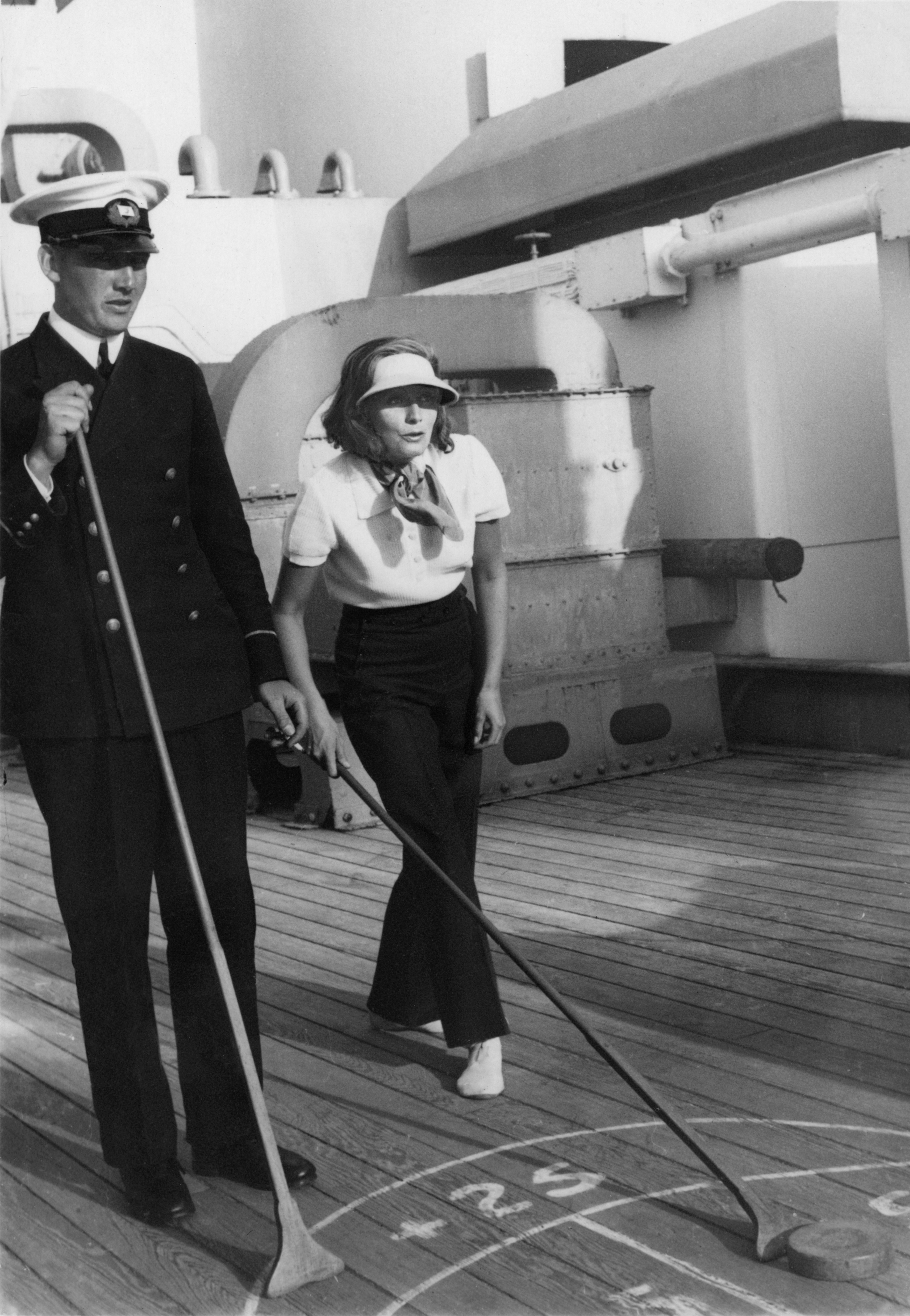 Photograph of the Swedish actor Greta Garbo playing shuffleboard on board of a Svenska Amerika Linien passenger ship.